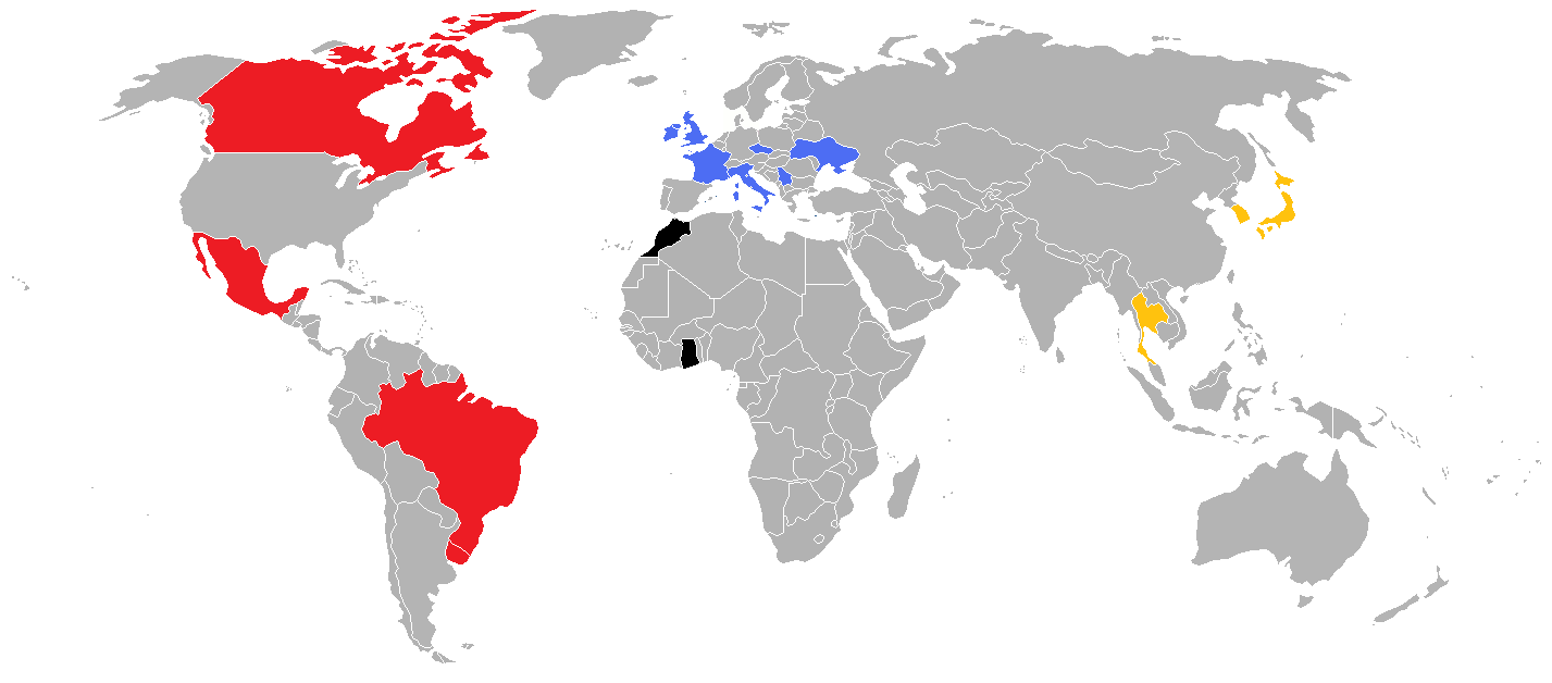 men's football - universiade 2009 - teams